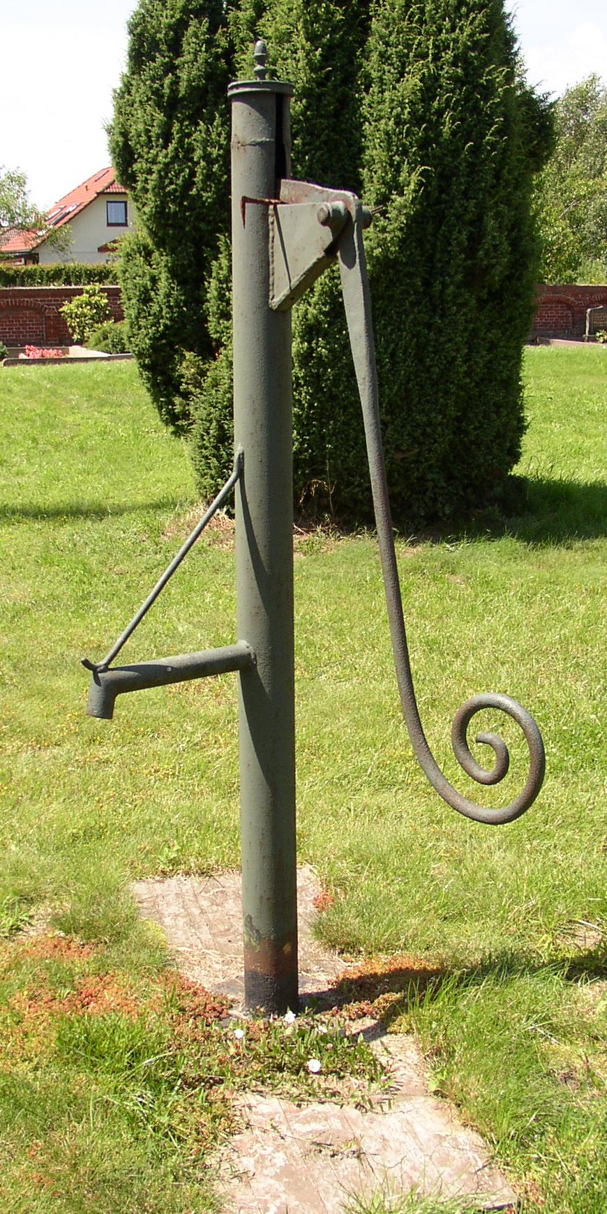 Manual Pump in Fehrbellin-Langen in Brandenburg, Germany